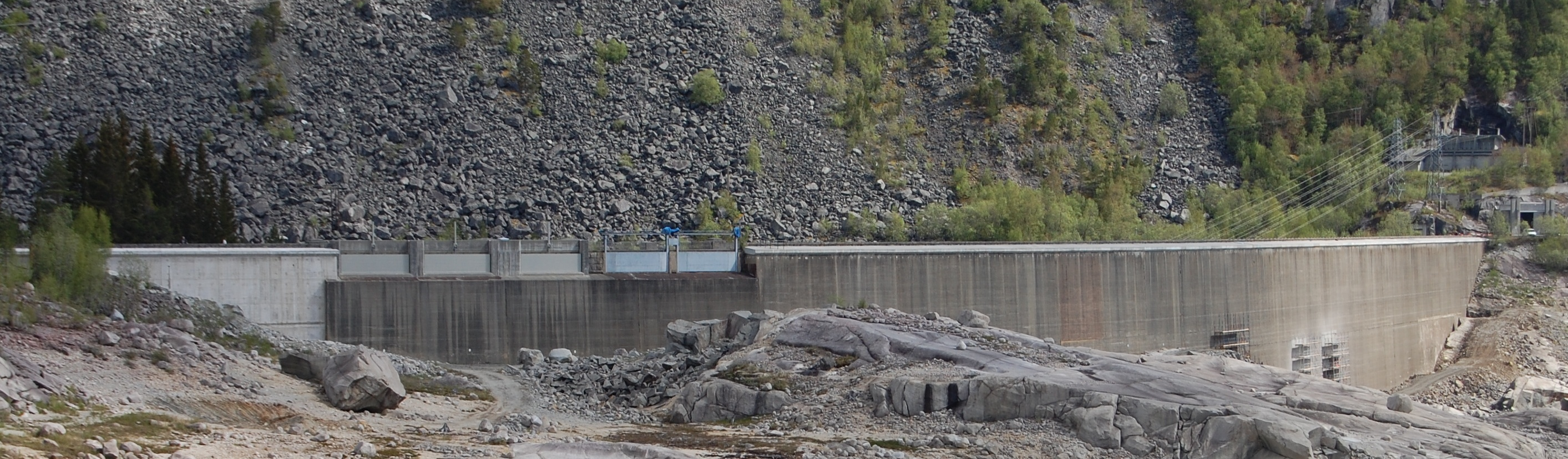 Ringedalsdammen